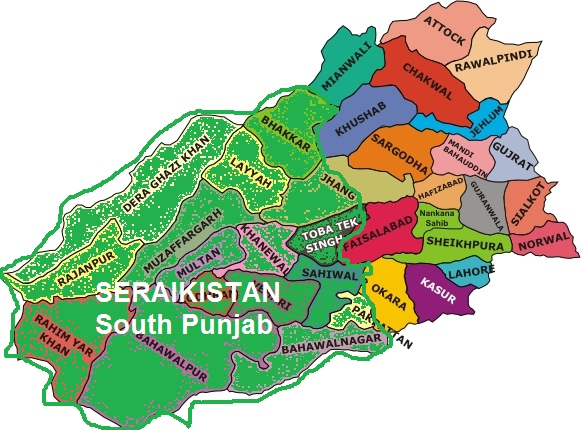 SOUTH PUNJAB